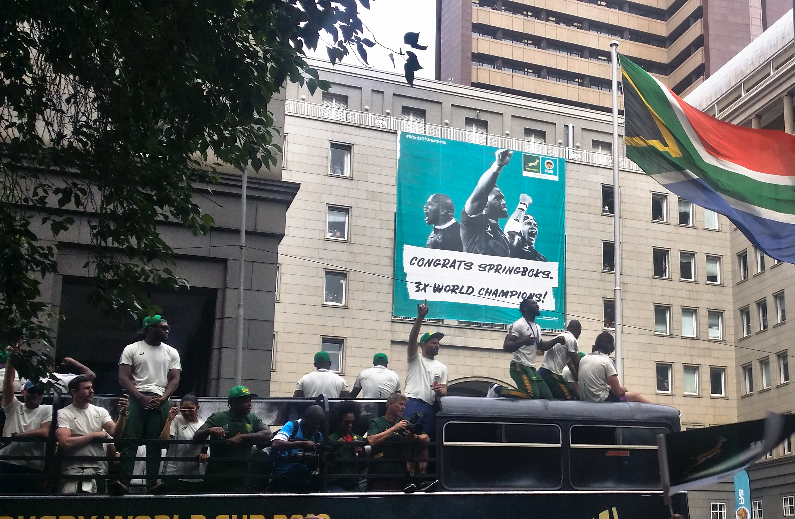 Springboks on their tour of South Africa after winning the 2019 Rugby World Cup.